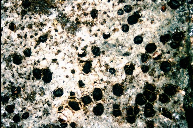 Polysporina simplex (Davies) Vězda, 1978 (photograph of a herbarium specimen taken through a dissecting microscope (x8) showing apothecia with coal black disks) Growing on a rock outcrop on a thinly wooded hillside along Carrs Mill Road, 1 mile from Route 97, Howard County, Maryland, USA; collected and identified by Arnold Norden and Allen Skorepa (No. 6311, 11 May 1977); specimen is now in the Lichen Herbarium of the New York Botanical Garden.